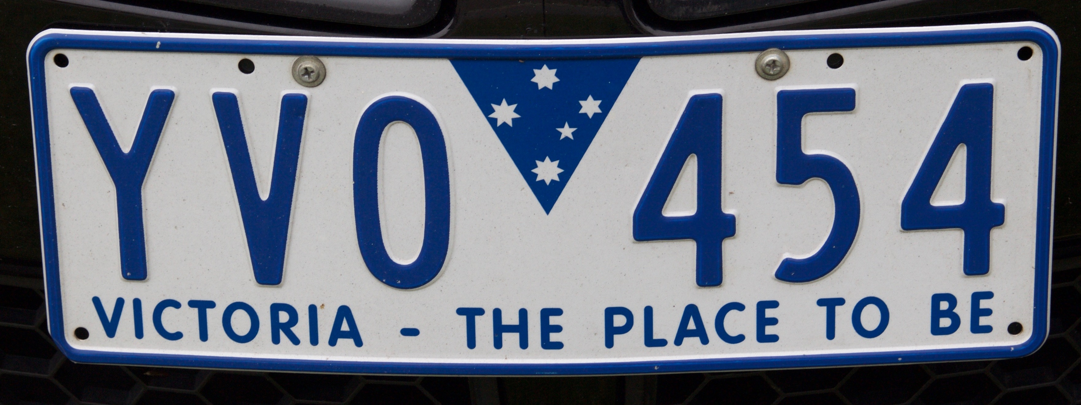 General issue vehicle registration plate of Victoria, standard size, YVO-454, The Place to Be. This plate is of standard size and incorporates the slogan "Victoria – The Place to Be" as issued from 17 October 2000 starting at QNG-100.